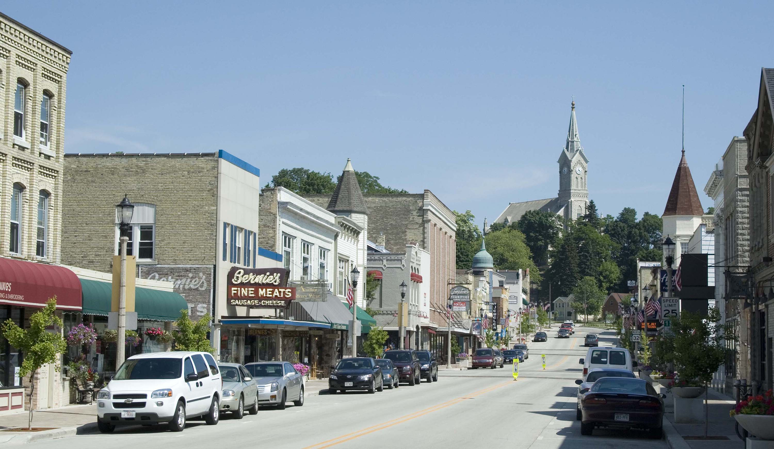 Port Washington Downtown Historic District (Wisconsin). Franklin Street, looking north from the corner of Grand Avenue.